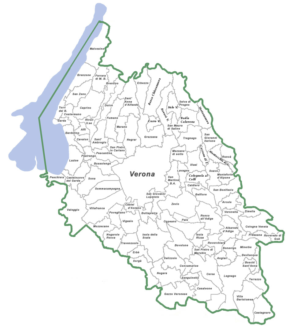 Maps of Verona's province